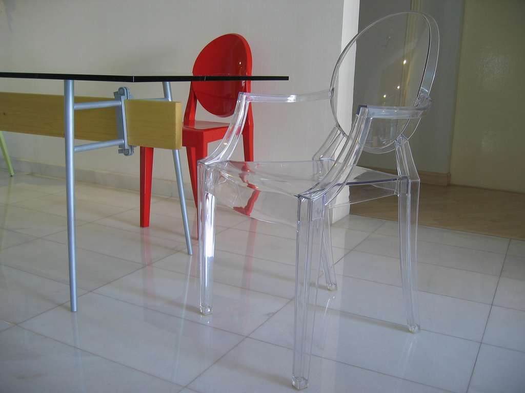 Table - Minimum Table (Cassina). Chairs - Louis Ghost (Kartell) & Victoria Ghost (Kartell). . All Designed by Philippe Starck.